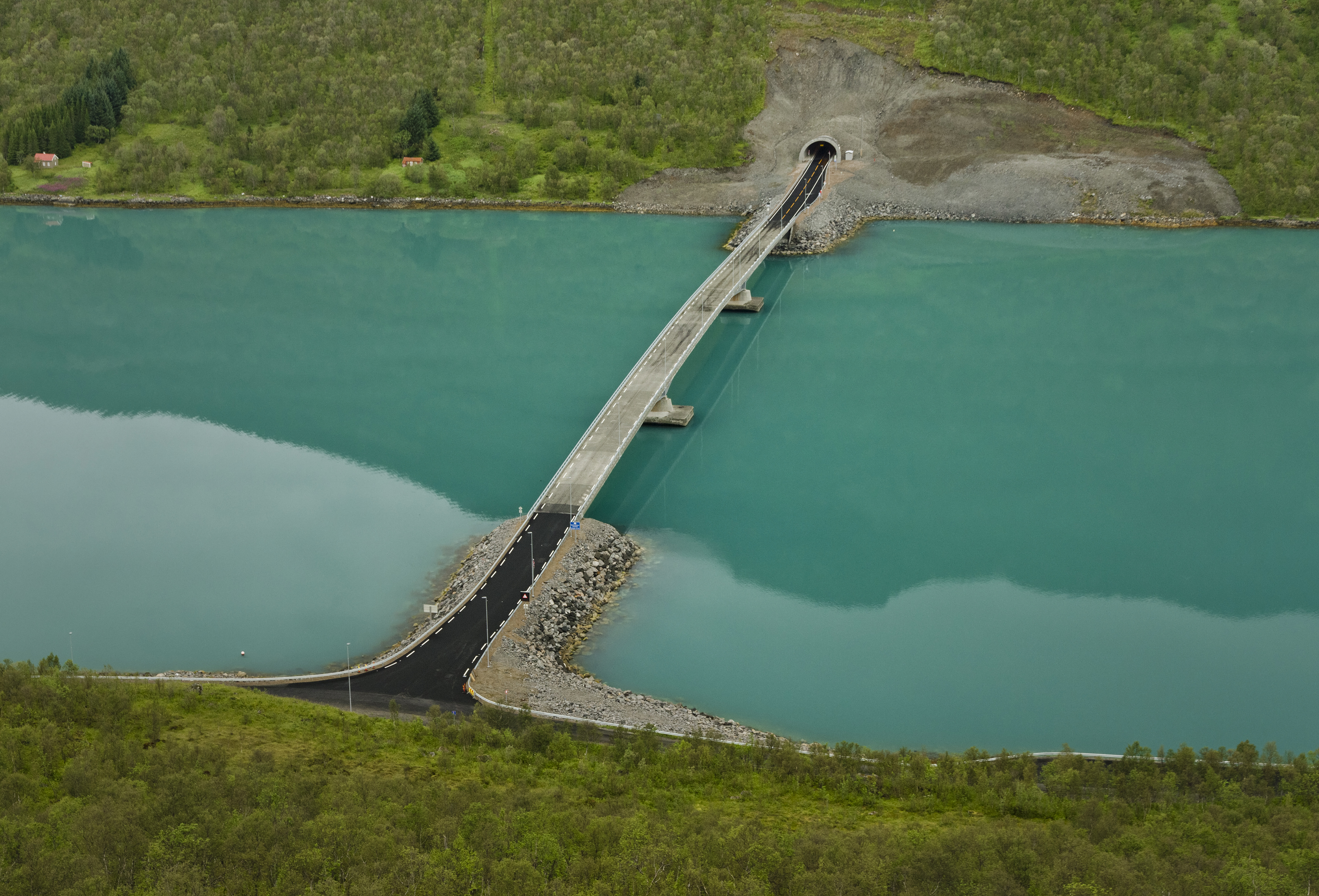 Fv86 road crossing Gryllefjorden into a tunnel in Torsken municipality, Senja, Troms, Norway in 2014 August. It is a shortcut for an older section of the road which circumvents the fjord from its far end and crosses Ballesvikskaret mountain pass.